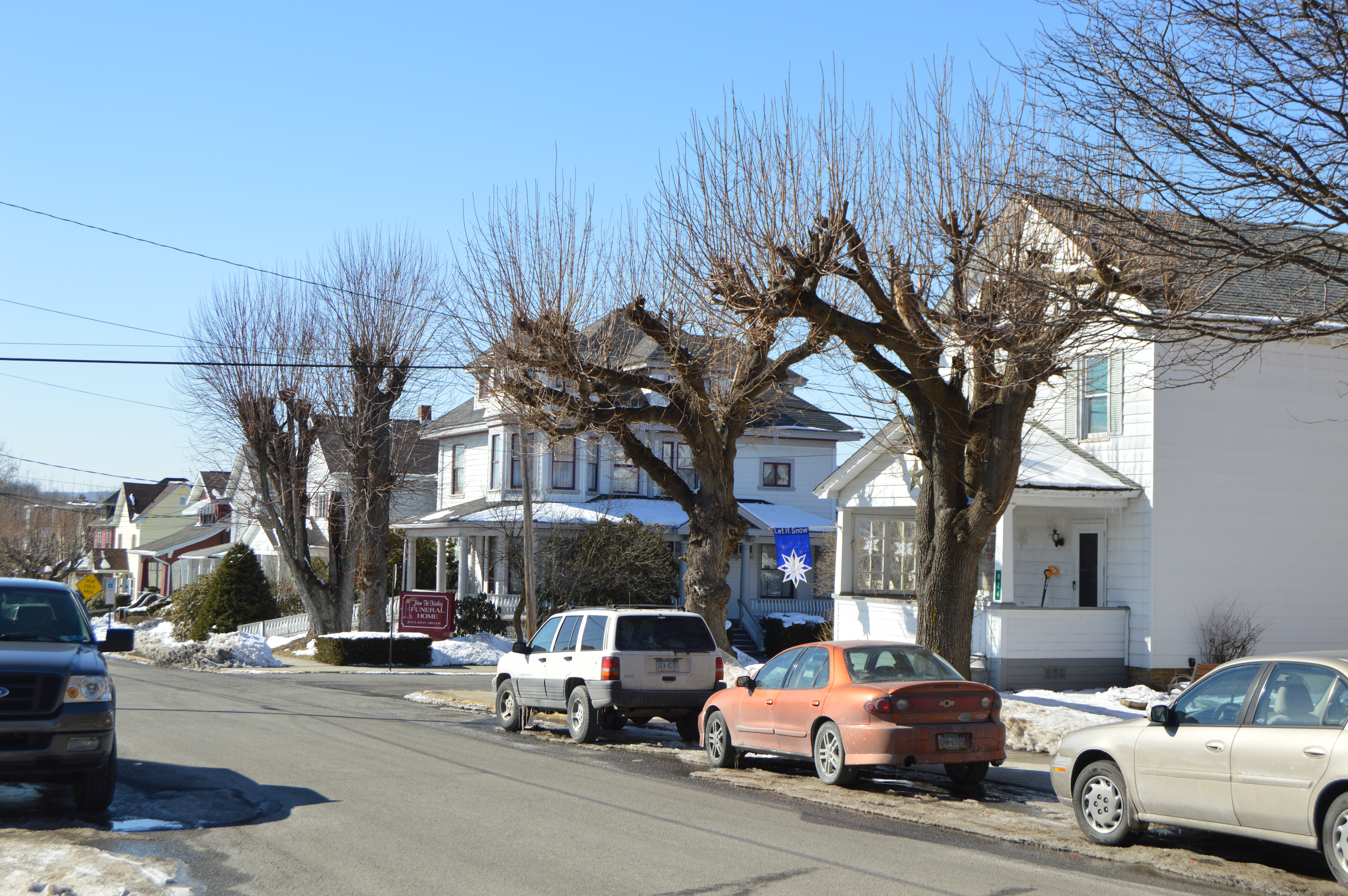 Houses on the northern side of Gillespie Street at the Cambria Street intersection in Portage, Pennsylvania, United States. This neighborhood is part of the Portage Historic District, a historic district that is listed on the National Register of Historic Places.